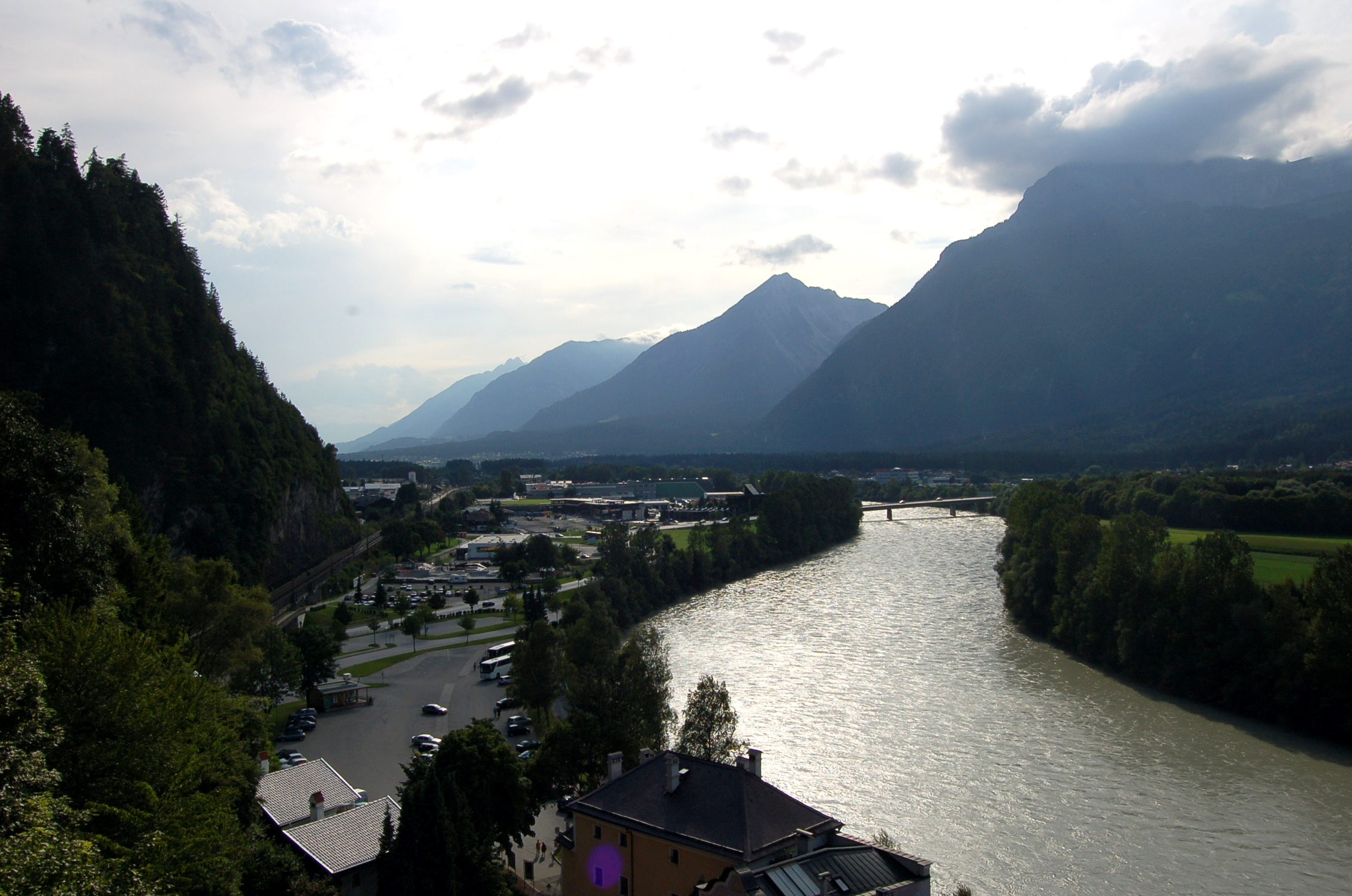 View of Lower Inn valley from Rattenberg castle (Tyrol) towards west